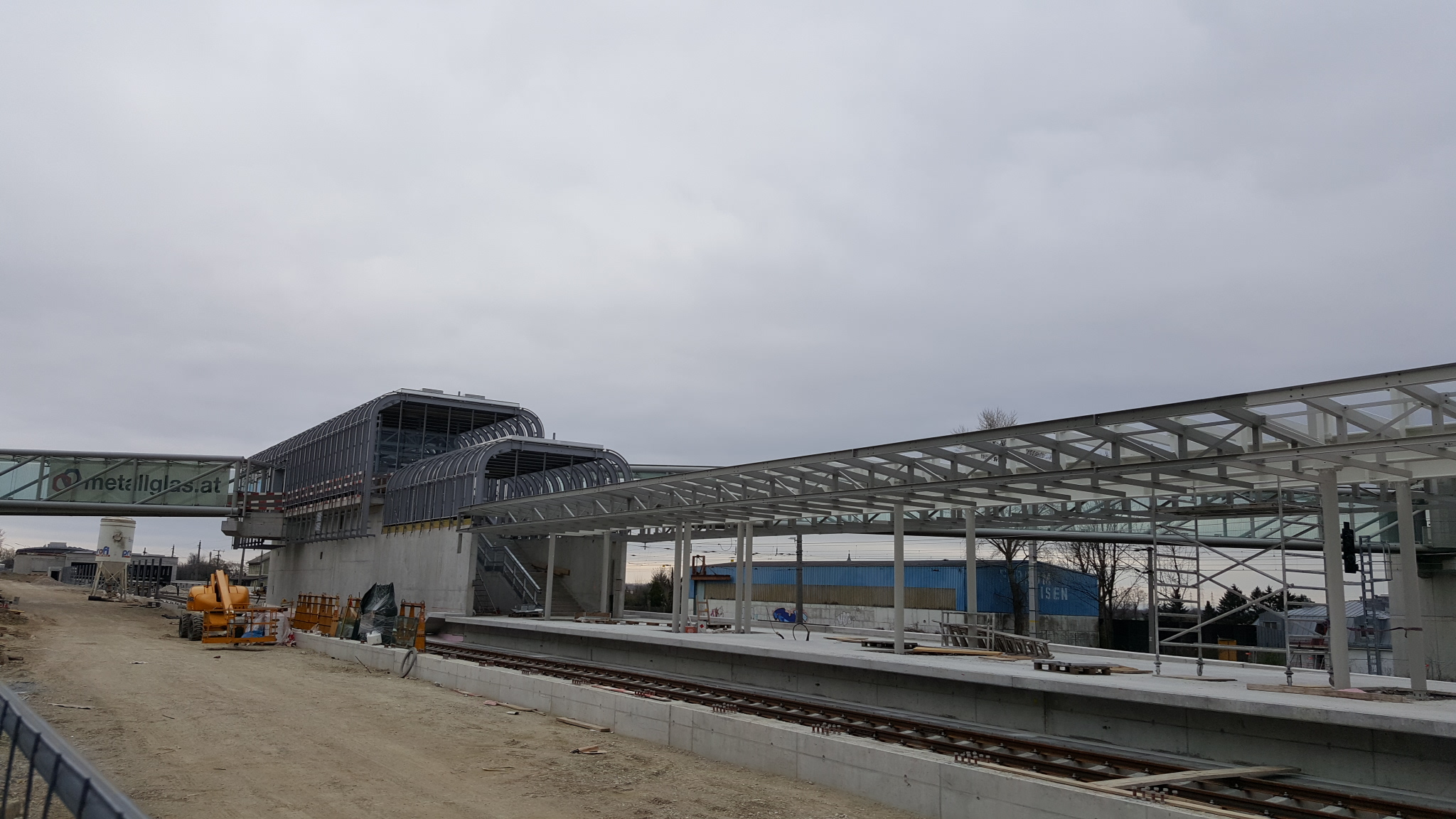 Viennese metro station Oberlaa under construction